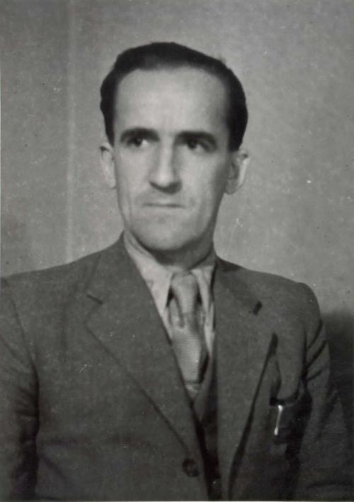 Maks Krmelj-Matija (1910-2004), Slovene communist and partisan